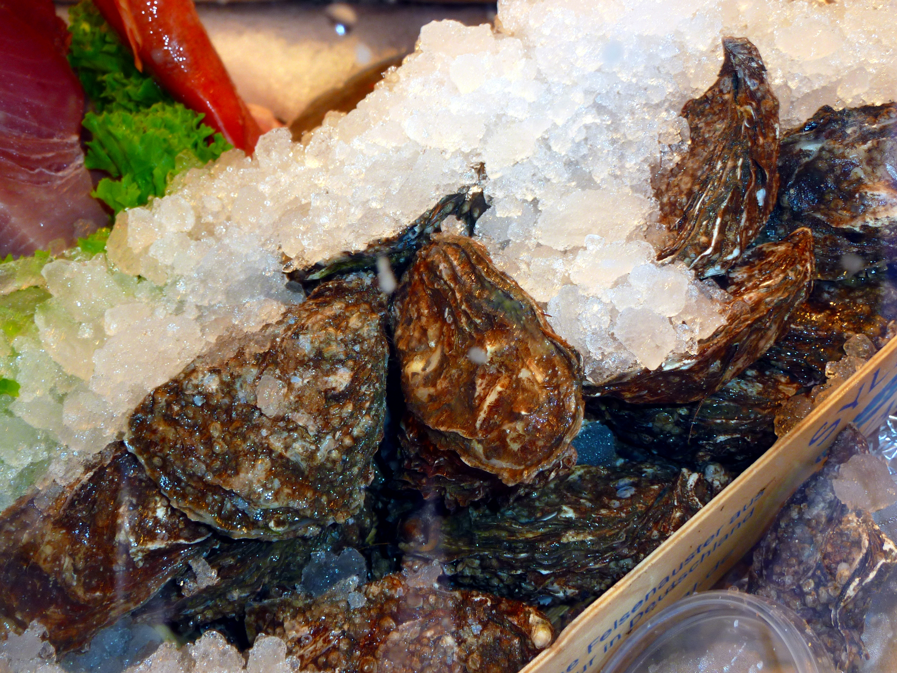 Sylter Royal oyster